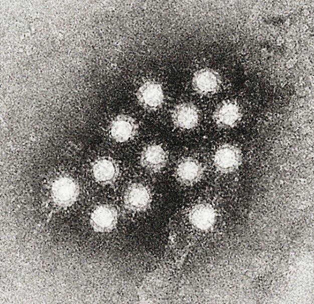 Cropped image of an electron micrograph of the Hepatitis A virus (HAV).